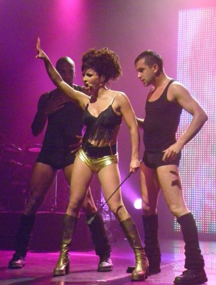 Ysa Ferrer - live at the Bataclan